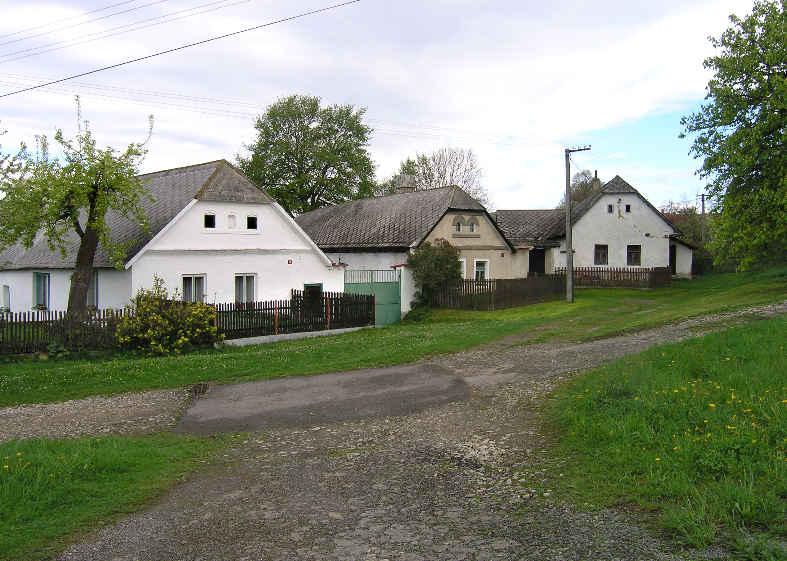 Střítež, part of Černovice village, Czech Republic